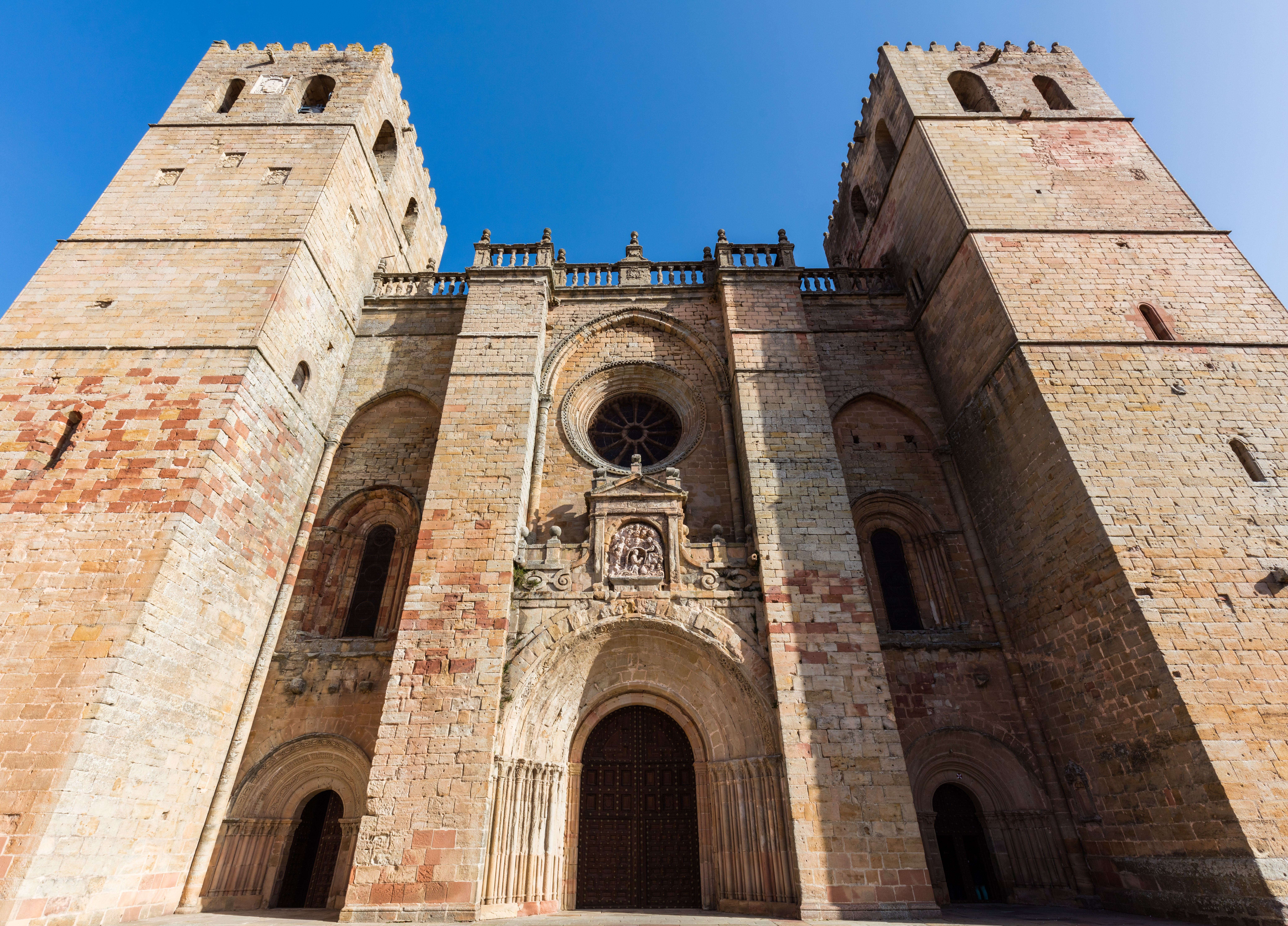 Cathedral of Santa María, Sigüenza, Spain